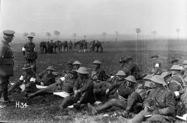 Brigadier General Braithwaite explains the plan for the upcoming Battle of Messines to New Zealand troops on training exercise, 1917. Royal New Zealand Returned and Services' Association :New Zealand official negatives, World War 1914-1918. Ref: 1/2-012757-G. Alexander Turnbull Library, Wellington, New Zealand.